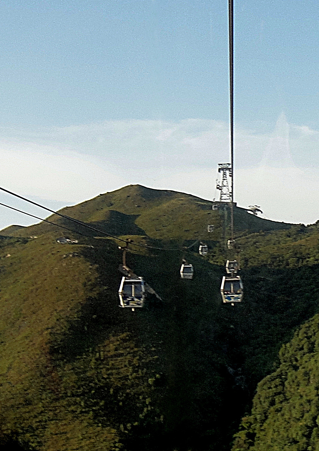 Ngong Ping 360 cable car ride from Ngong Ping Village to Tung Chung, Hong Kong